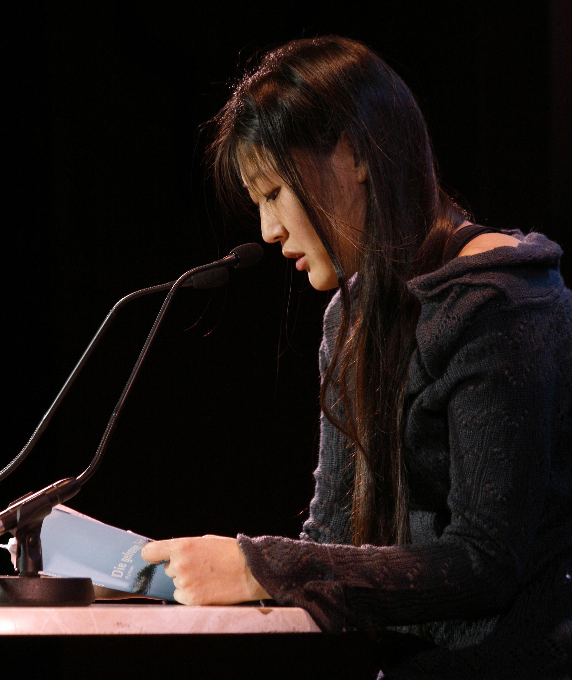 Austrian writer Anna Kim reading from her book Die gefrorene Zeit (Frozen Time); Vienna.